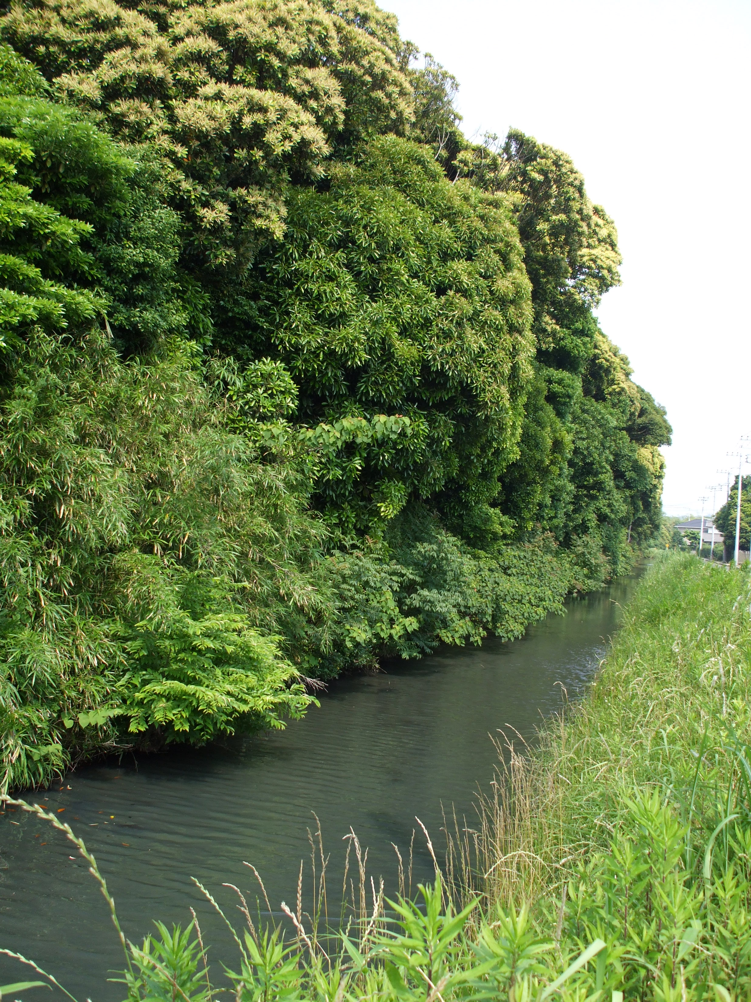 Iino Jin'ya, Ruins of 3rd Bailey, Futtsu, Chiba, Japan